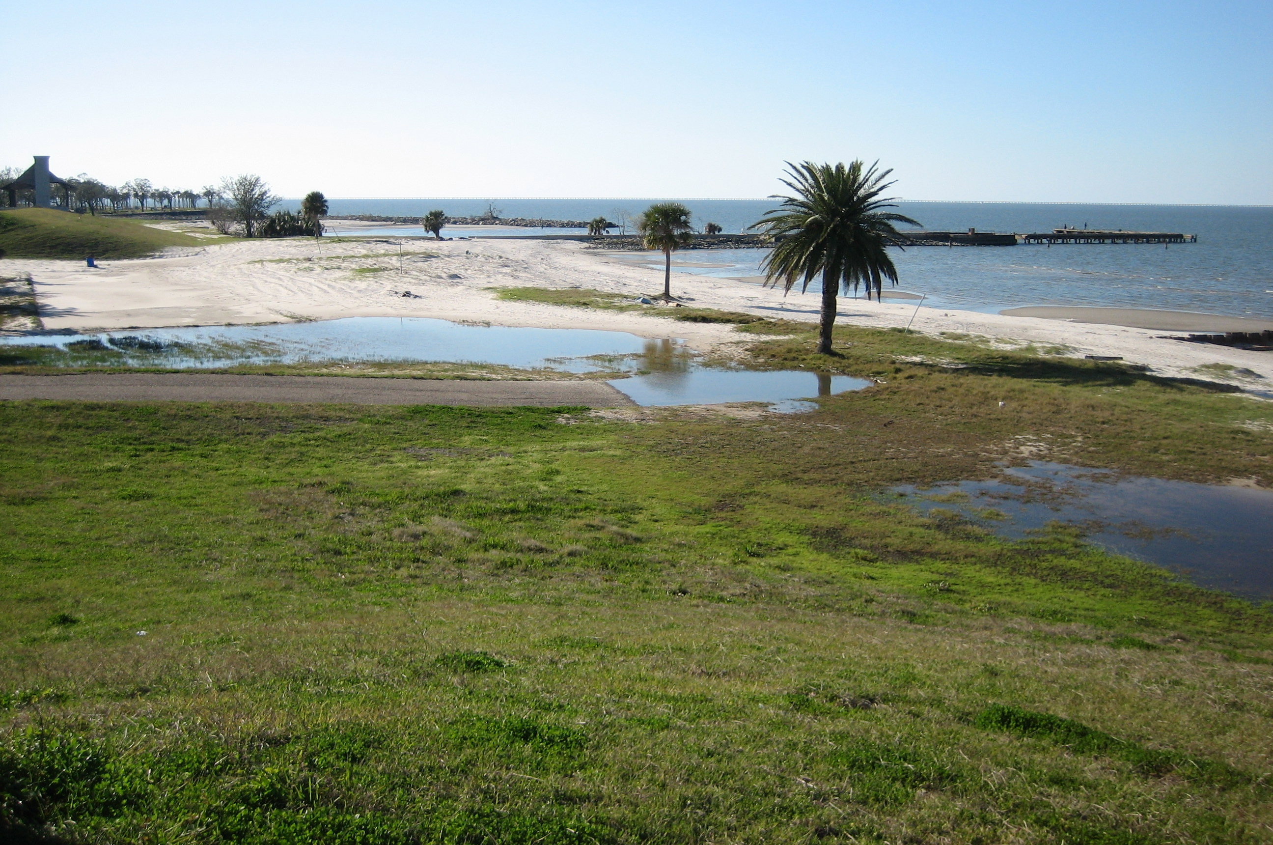 Remains of the old beach at Pontchartrain Beach, New Orleans